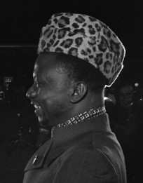 The photo contact sheet, identified as A9611 by the White House Photographic Office (WHPO), is housed at the Gerald R. Ford Presidential Library, a branch of the National Archives and Records Administration (NARA). This file is a 200 dpi photo contact sheet having images from roll of film A9611 of the August 9, 1974 - January 20, 1977 Gerald R. Ford White House Photographic Office Series A0001-A9999 and B0001-B2886 photographs. The date on the photo contact sheet is the date the roll of film was processed, not necessarily the date the photographs were taken. See table below for additional details.